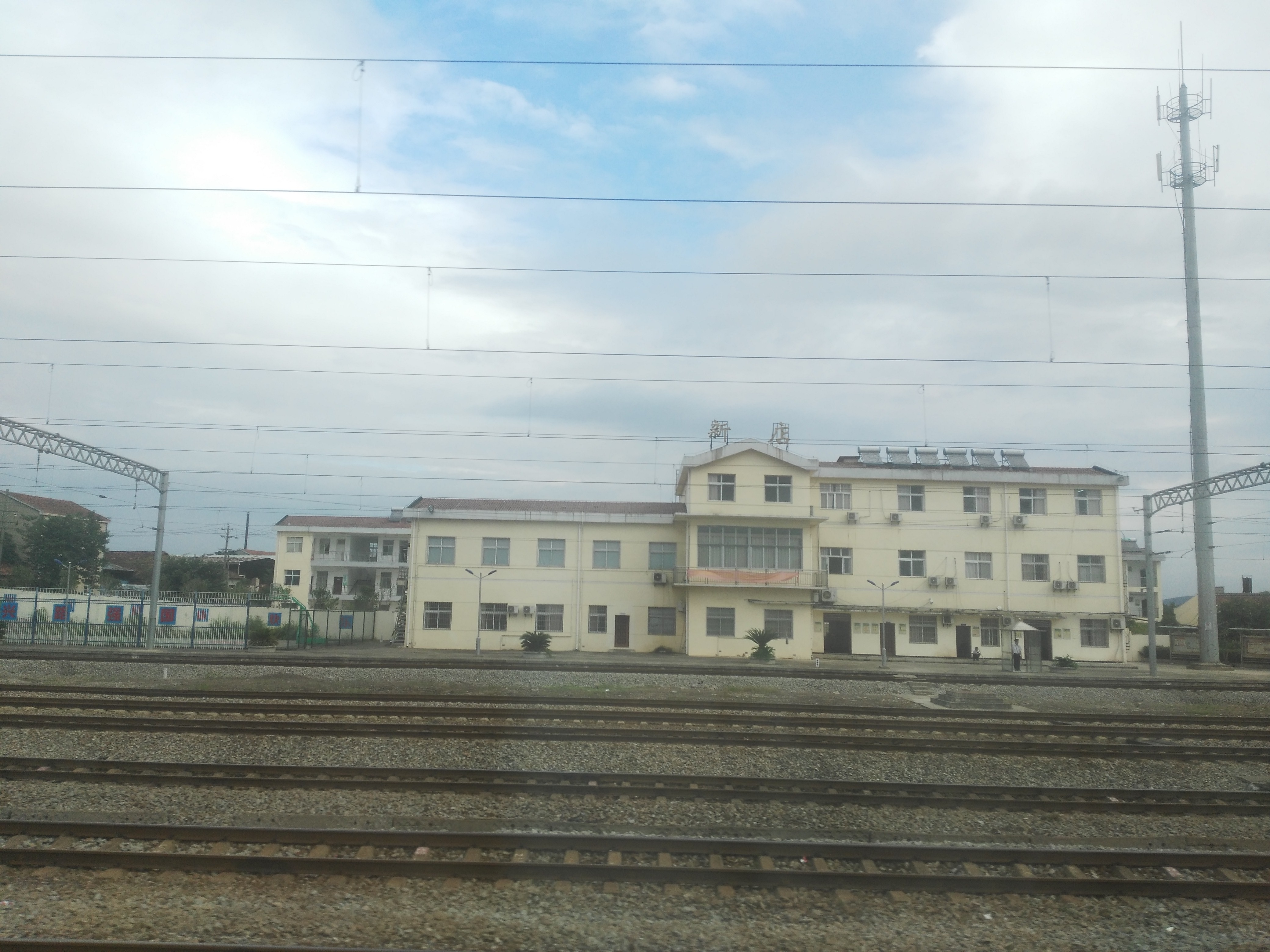 Xindian Station on Wujiu Line.